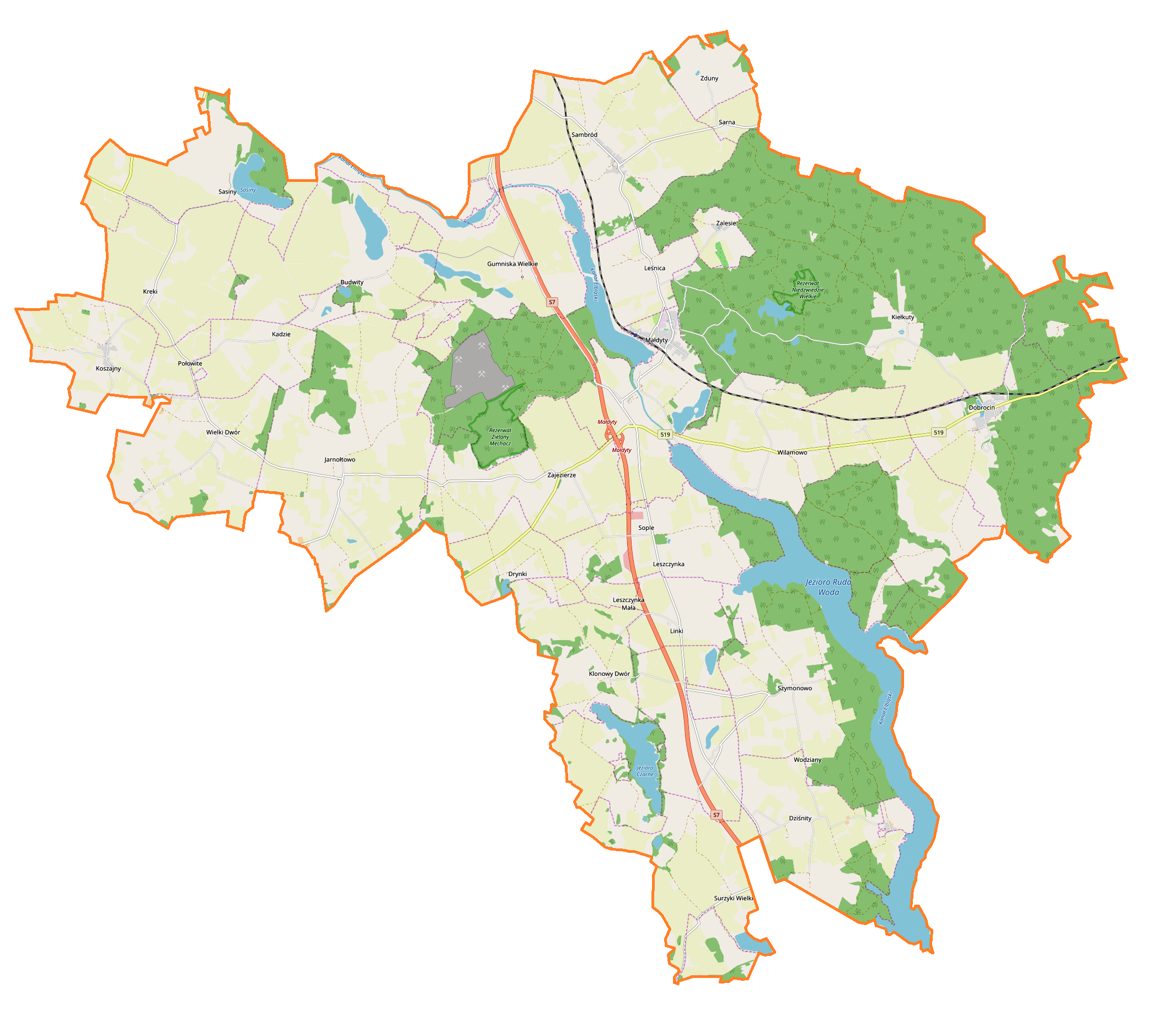 Location map